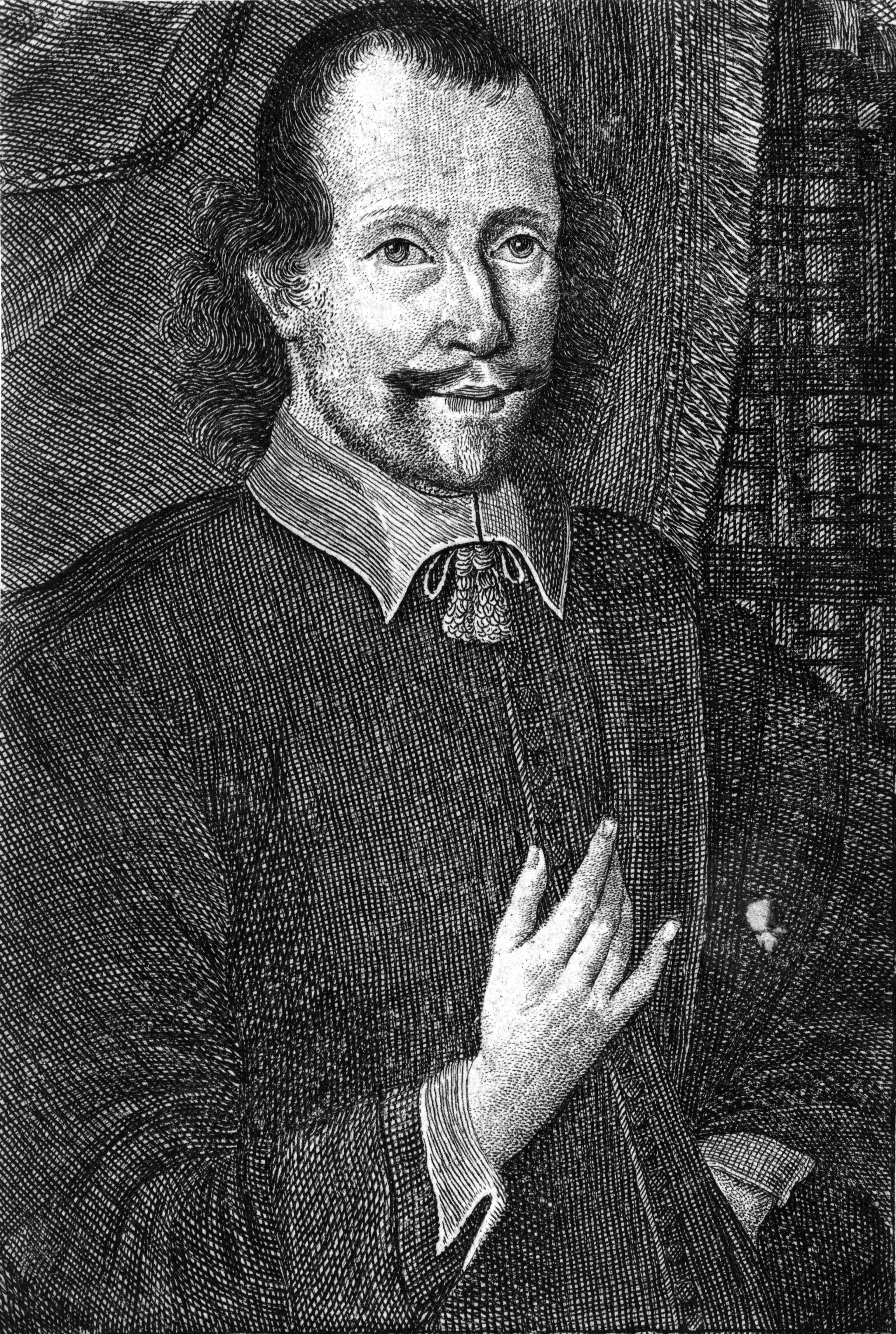 Depicted person: Simon Dach